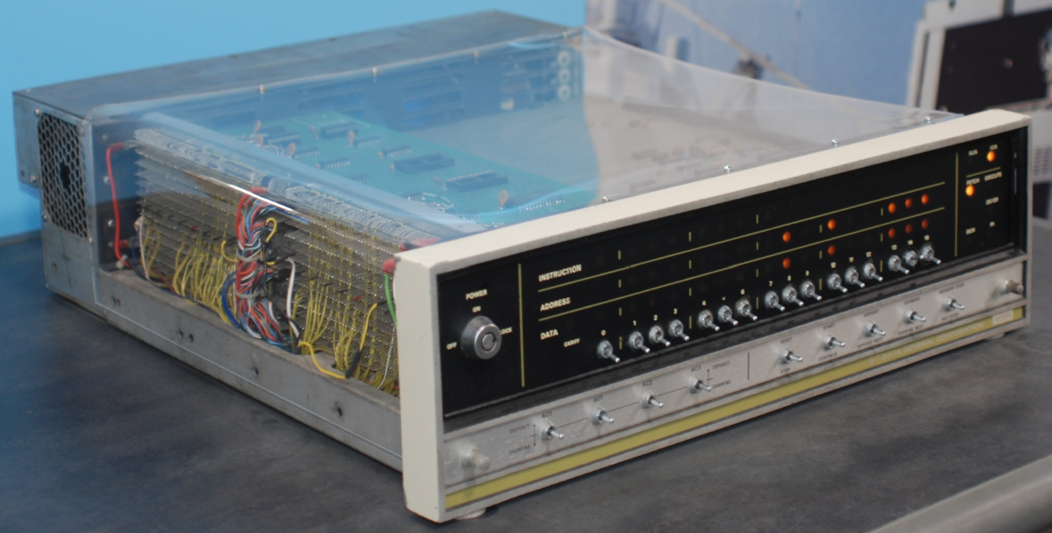 Data General Nova Computer. Currently on display at the Living Computer Museum in Seattle, Washington.